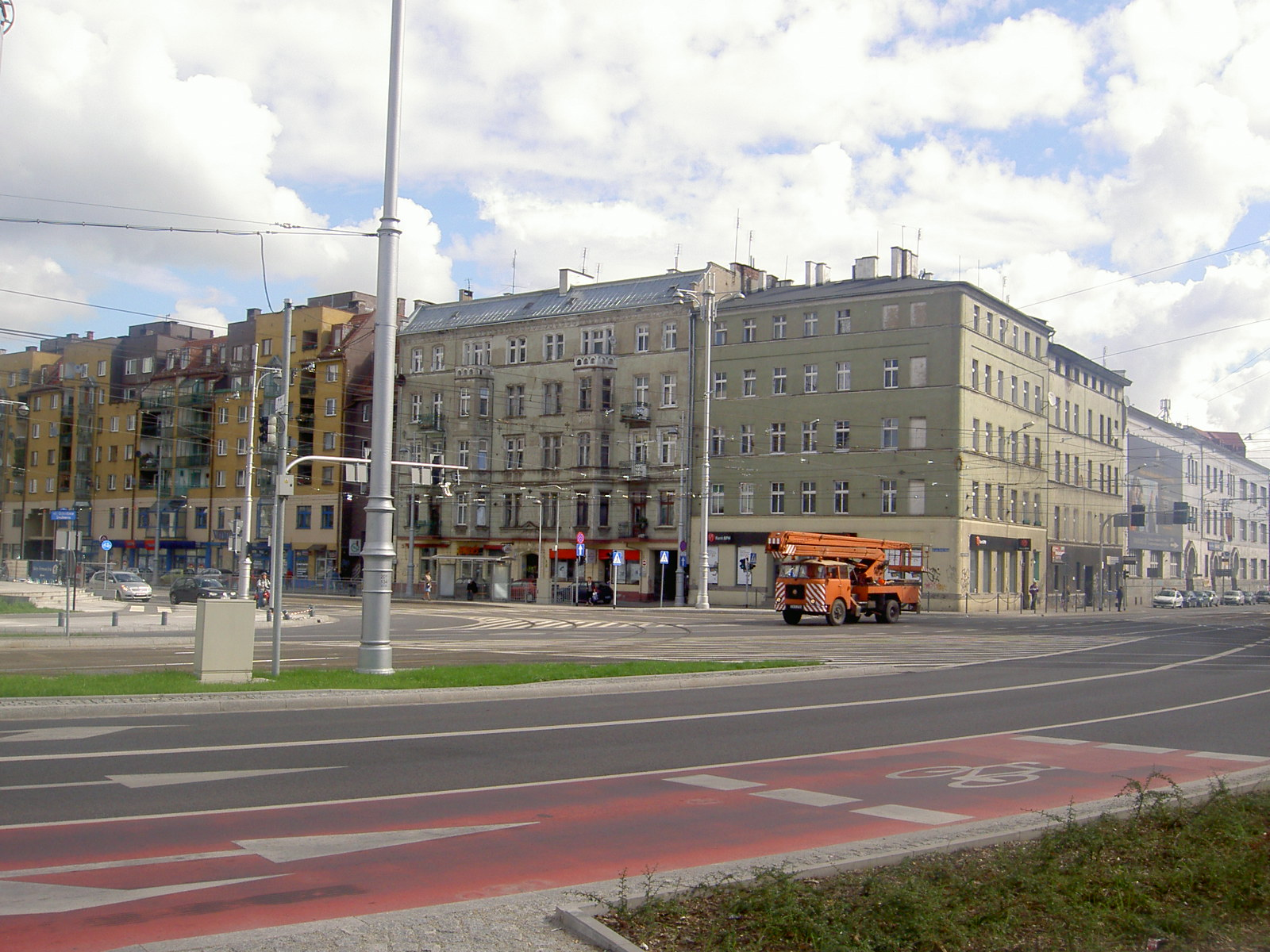 Bema Square in Wroclaw